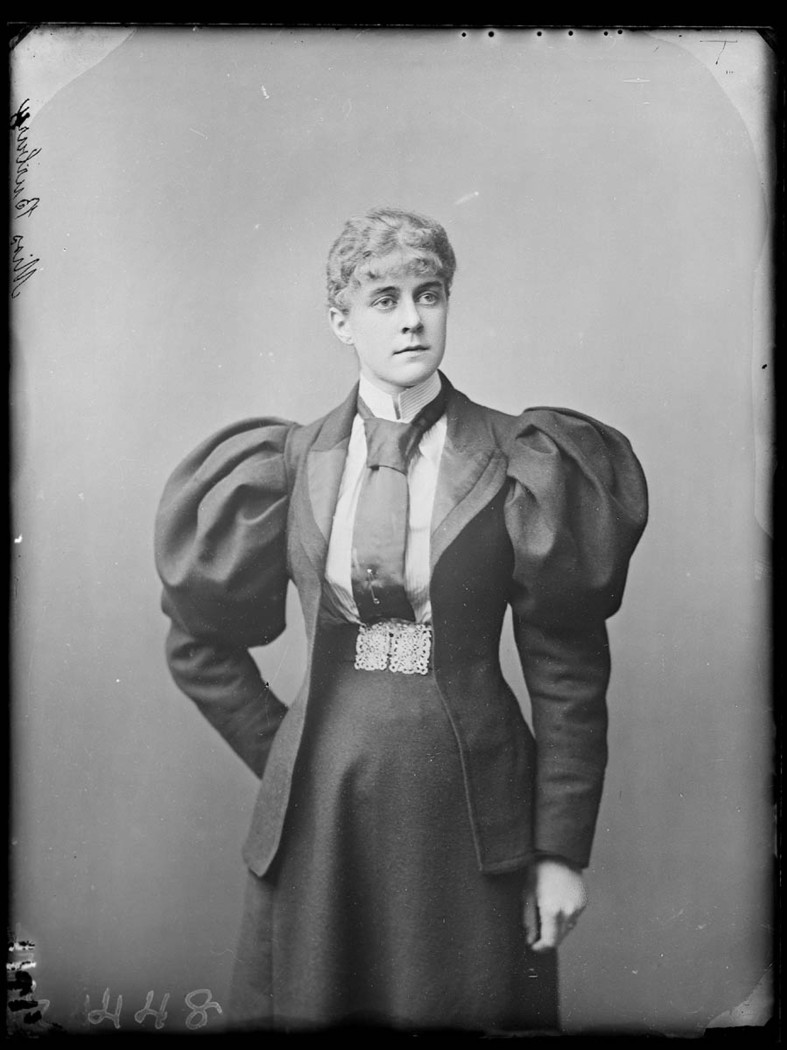 Format: Glass negative Find more detailed information about this photographic collection: .au/item/itemDetailPaged.aspx?itemID=404578 From the collection of the State Library of New South Wales